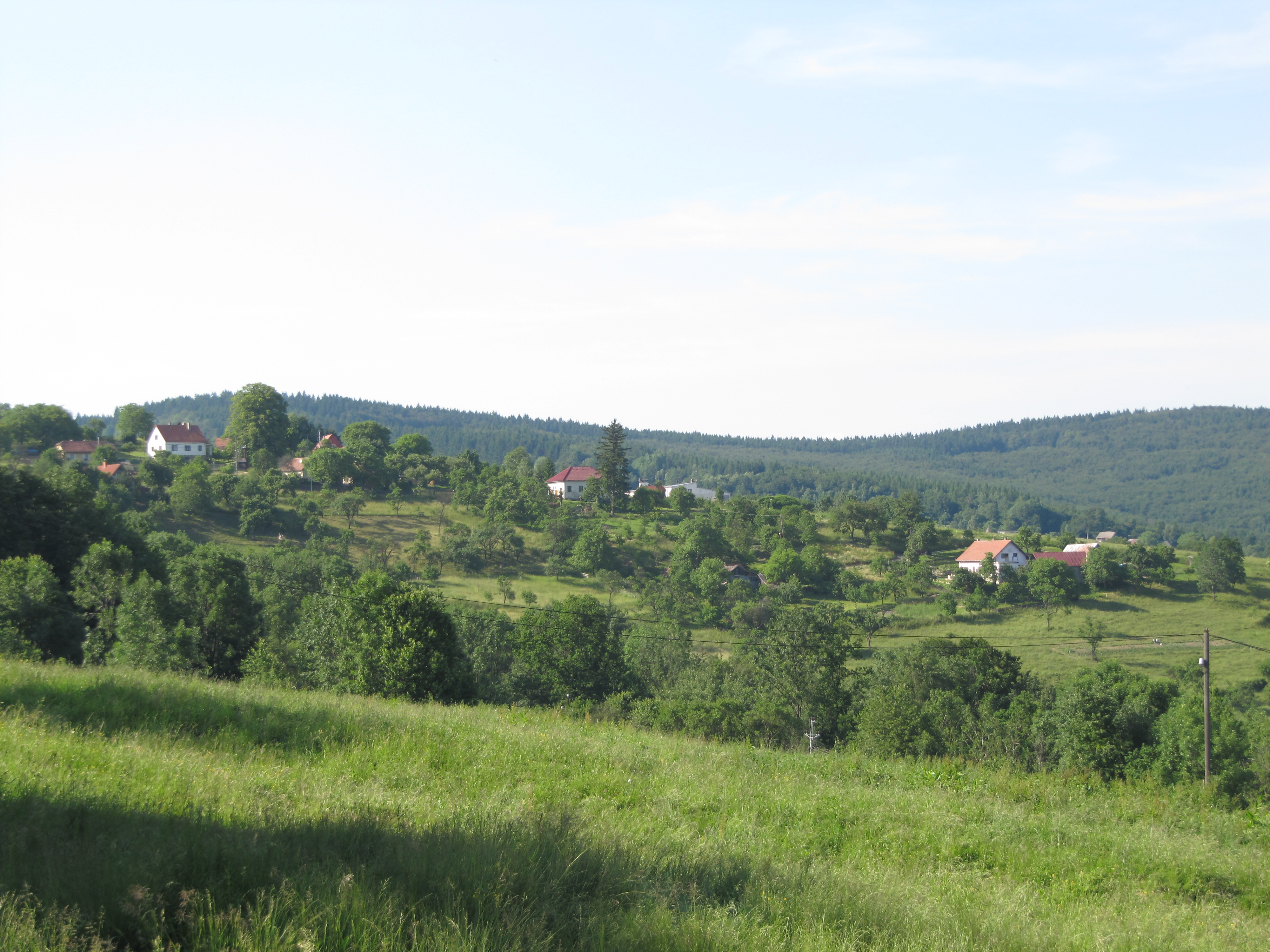 Žítková in Uherské Hradiště District, Czech Republic. Cottages.